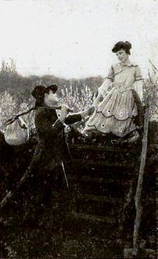 Still from the American film A Hoosier Romance (1918) with Colleen Moore and Harry McCoy, on page 18 of the February 1919 Educational Film Magazine.